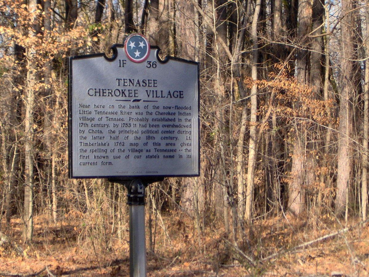 Tennessee Historical Commission marker along Citico Road in Monroe County, Tennessee, in the southeastern United States. *The marker recalls the 18th-century Cherokee village of Tanasi, which was located several miles to the north. This marker is located near the national forest boundary.